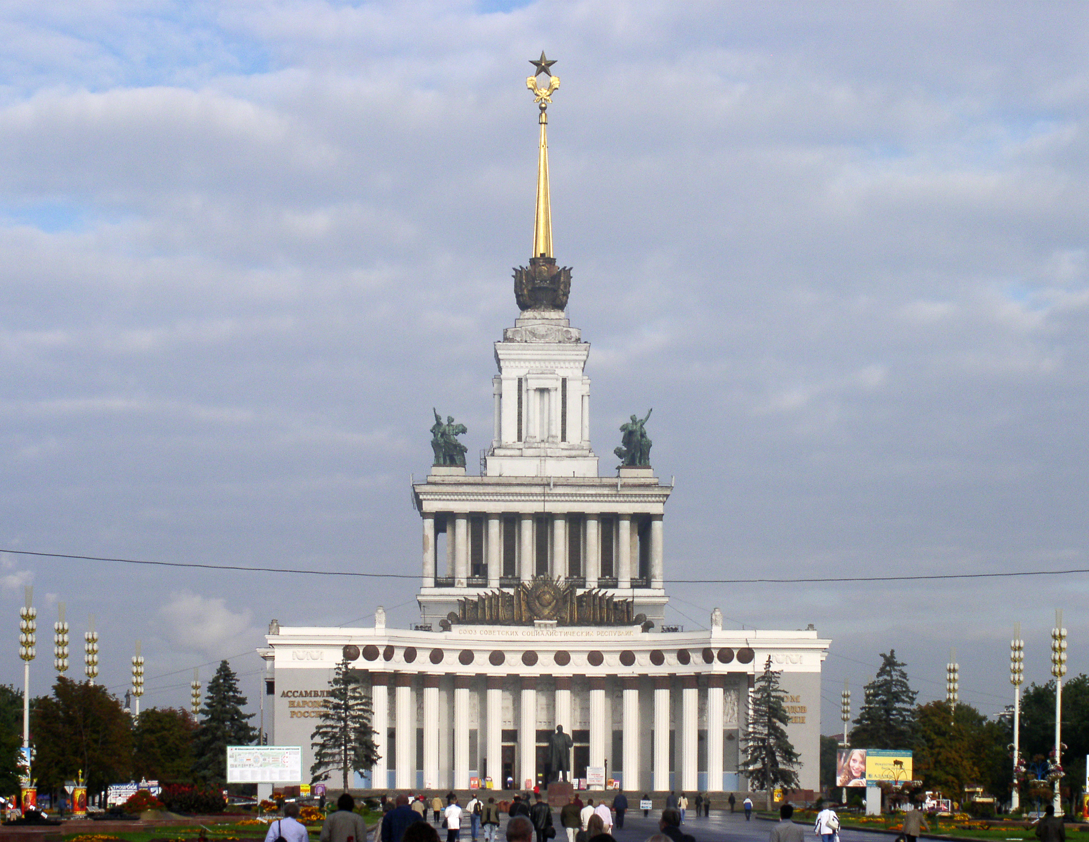 All-Russian Exhibition Center. Moscow, Russia.